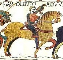 Cropped panel of Bayeux Tapestry showing king Harold Godwinson